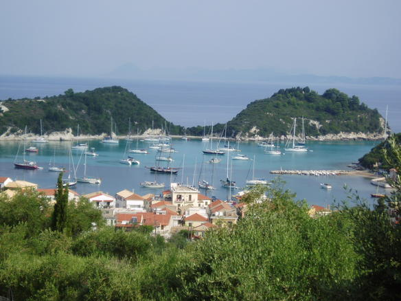 Paxi. Lakka bay, Paxi.